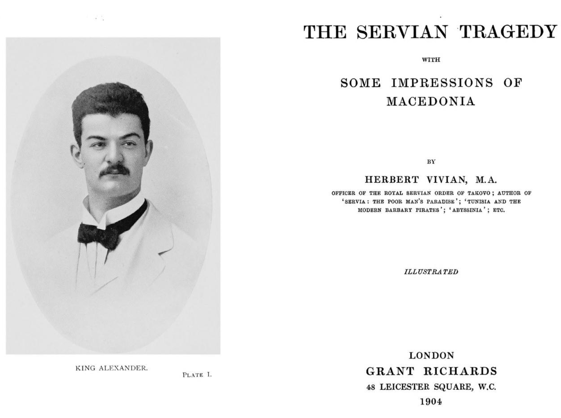 Frontspiece to Herbert Vivian's 1904 book "The Servian Tragedy"